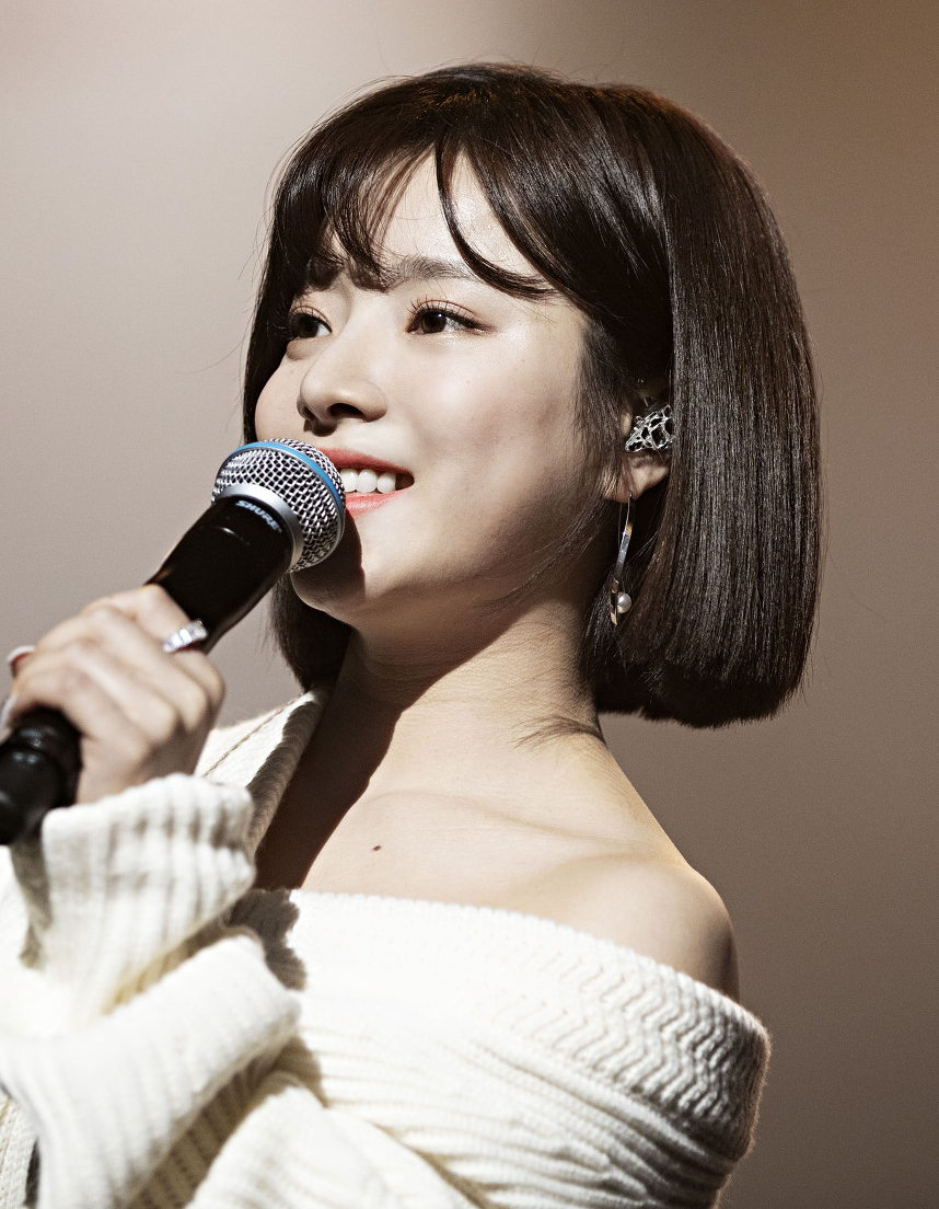 Ben at 'Bello' concert on January 11, 2019.